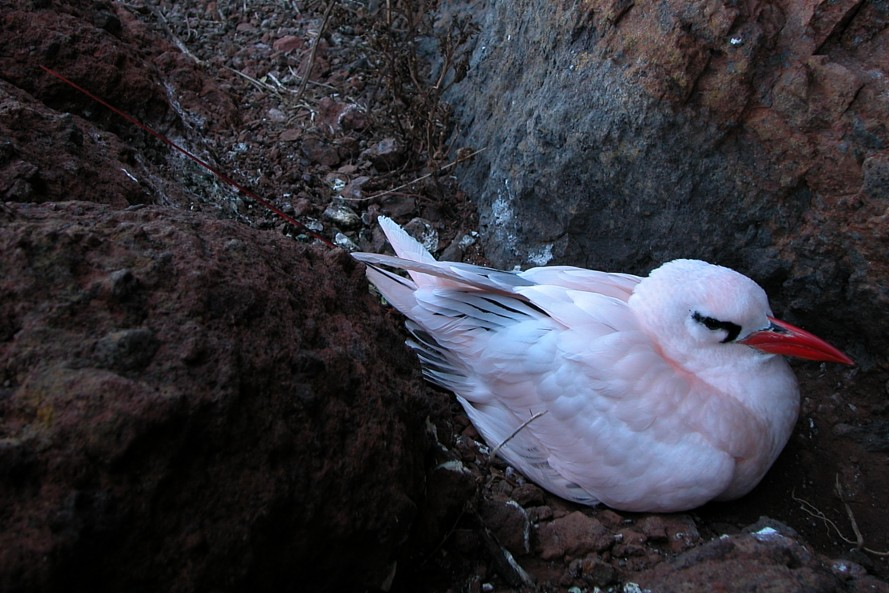 Red-tailed Tropicbird, Phaethon rubricauda, on nest.